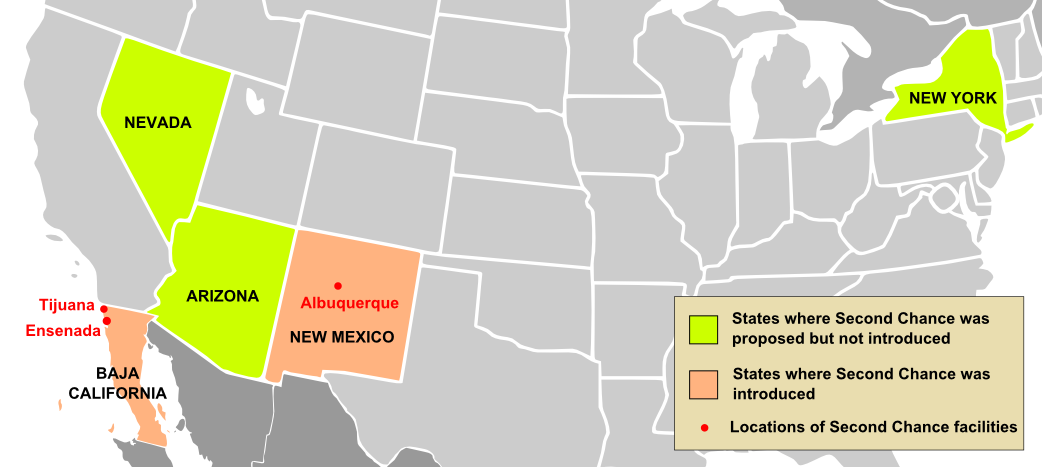 Map of North America and its second-level political divisions. Canadian provinces, US and Mexican states. Canada, Mexico, United States. Non-contiguous parts of a states/provinces are "grouped" together with the main area of the state/provinces, so any state/provinces can be coloured in completion with one click anywhere on the state/provinces's area. Also, all states/provinces have a "id" attached to them, making them easy to find. Select "find" and then enter in the state/provinces's ISO 3166-2 code in the "id" field to find it. The codes can be found here (Canada), here (USA) and here (Mexico).